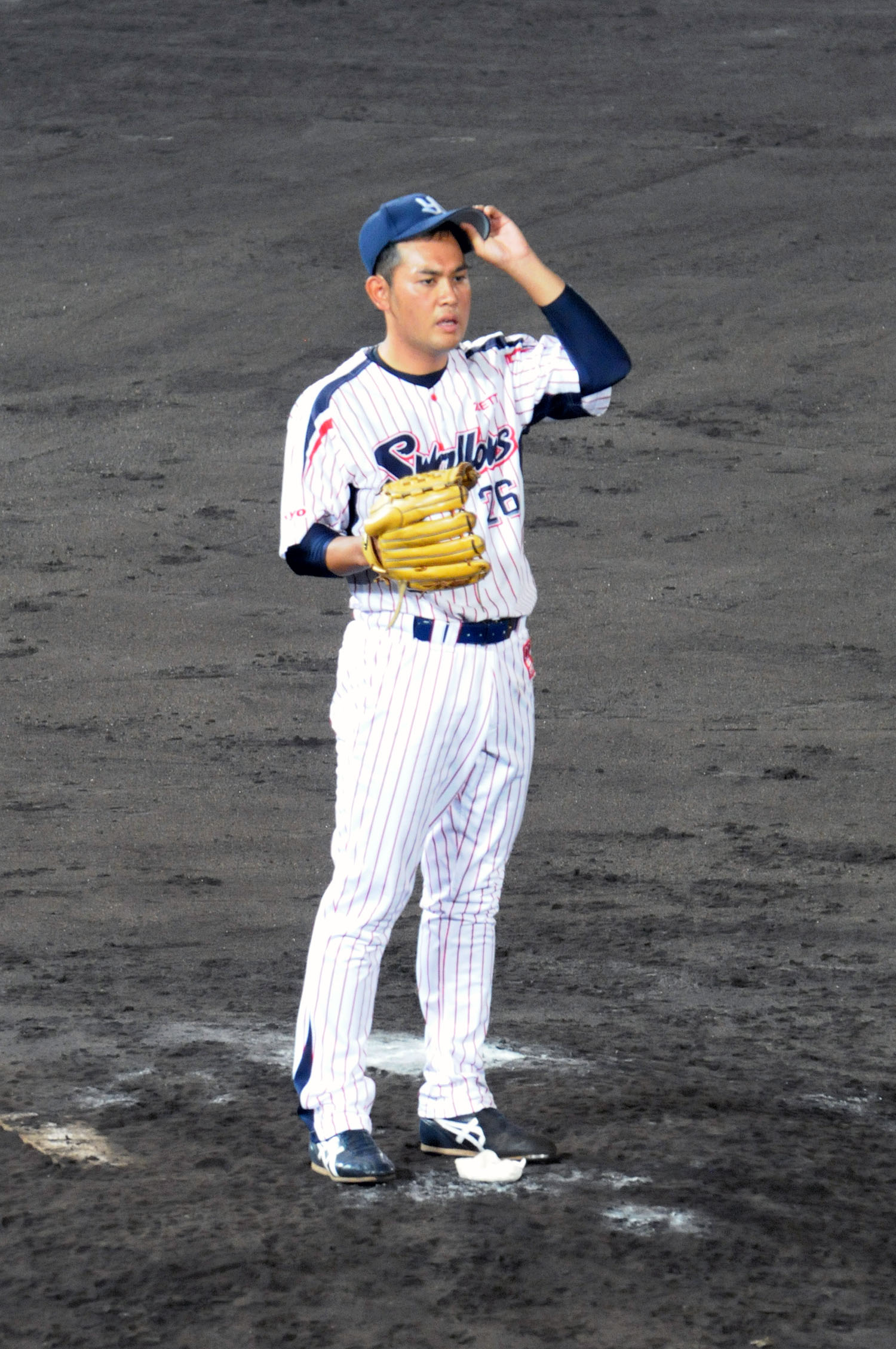 Kentaro Kyuko, pitcher of the Tokyo Yakult Swallows, at Akita Prefectural Baseball Stadium.